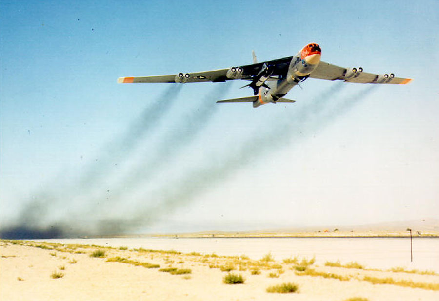 Boeing NB-52B takeoff with X-15 mounted under the wing